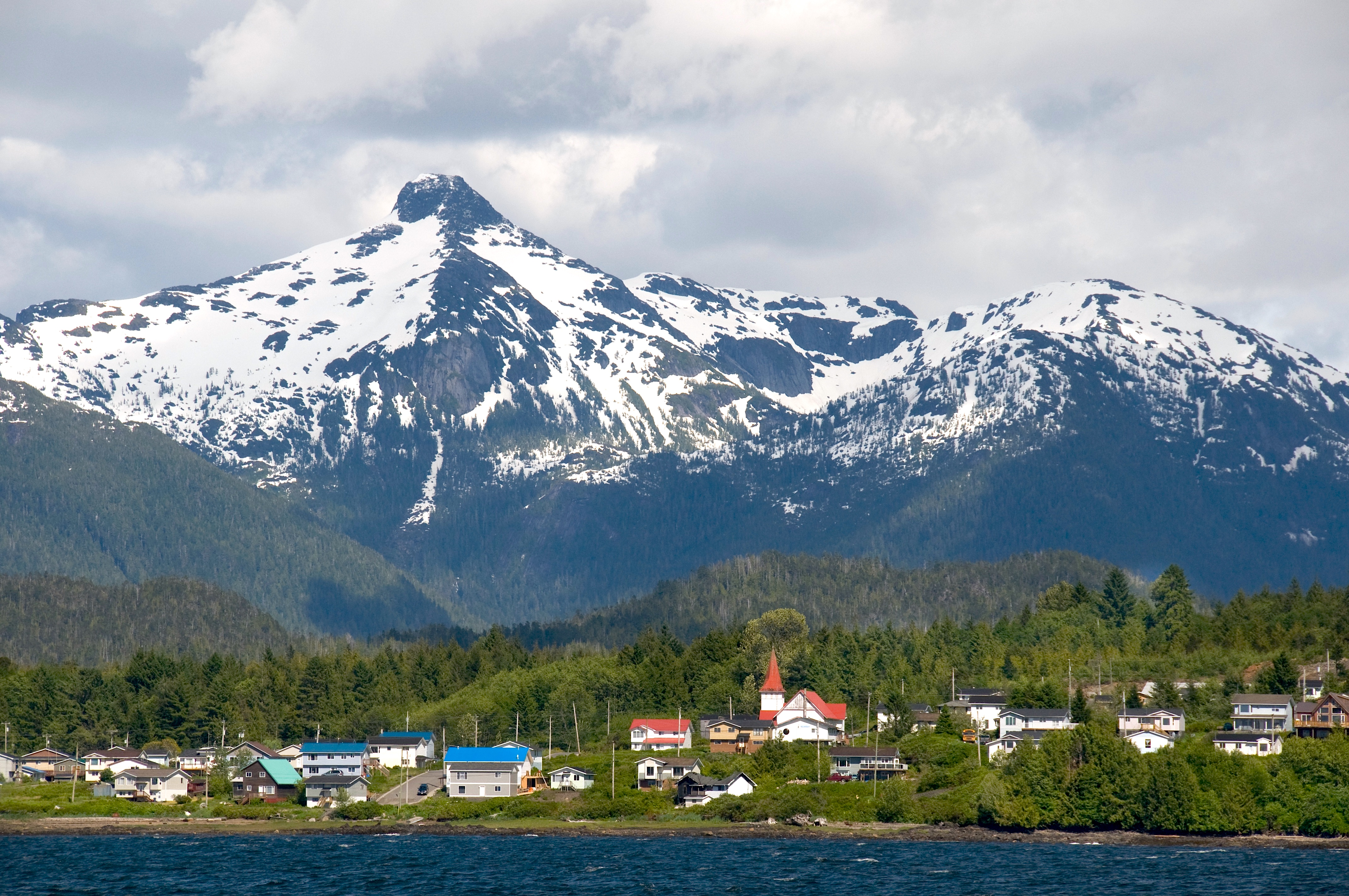 You wouldn't know it from this photo, but when I took the picture we were in some of the roughest sea conditions of the entire summer. As luck would have it, this was the first day of a one-week cruise out of Prince Rupert with guests! Well, the guests were good sports about it, and they had taken seasickness medication so the experience was never truly vile. It was too much for one of the cats, though, and she barfed delicately for the first and only time on this cruise before taking to her storm berth in the master stateroom. However, unseen in this photo is the lovely expanse of calm water in the channel behind Port Simpson (Lax Kw'alaams). Soon we turned the corner, the seas laid down, and everything was groovy again.